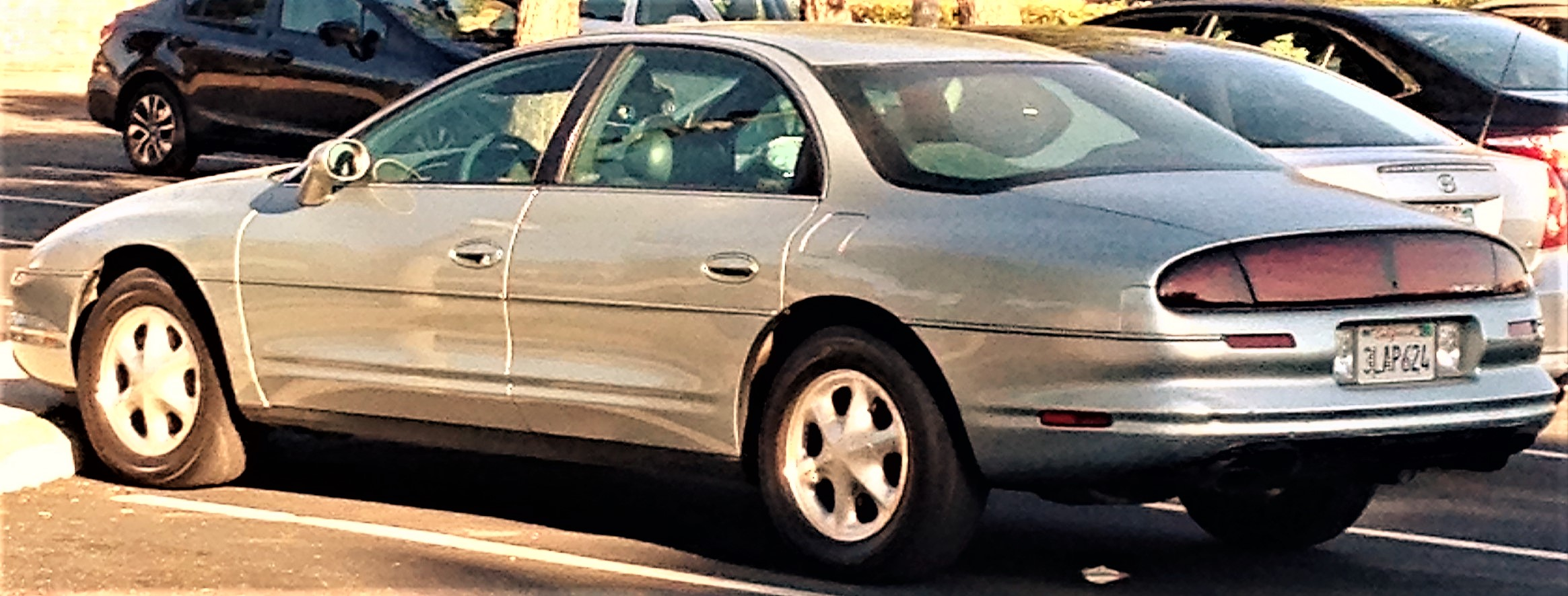 First-generation Oldsmobile Aurora